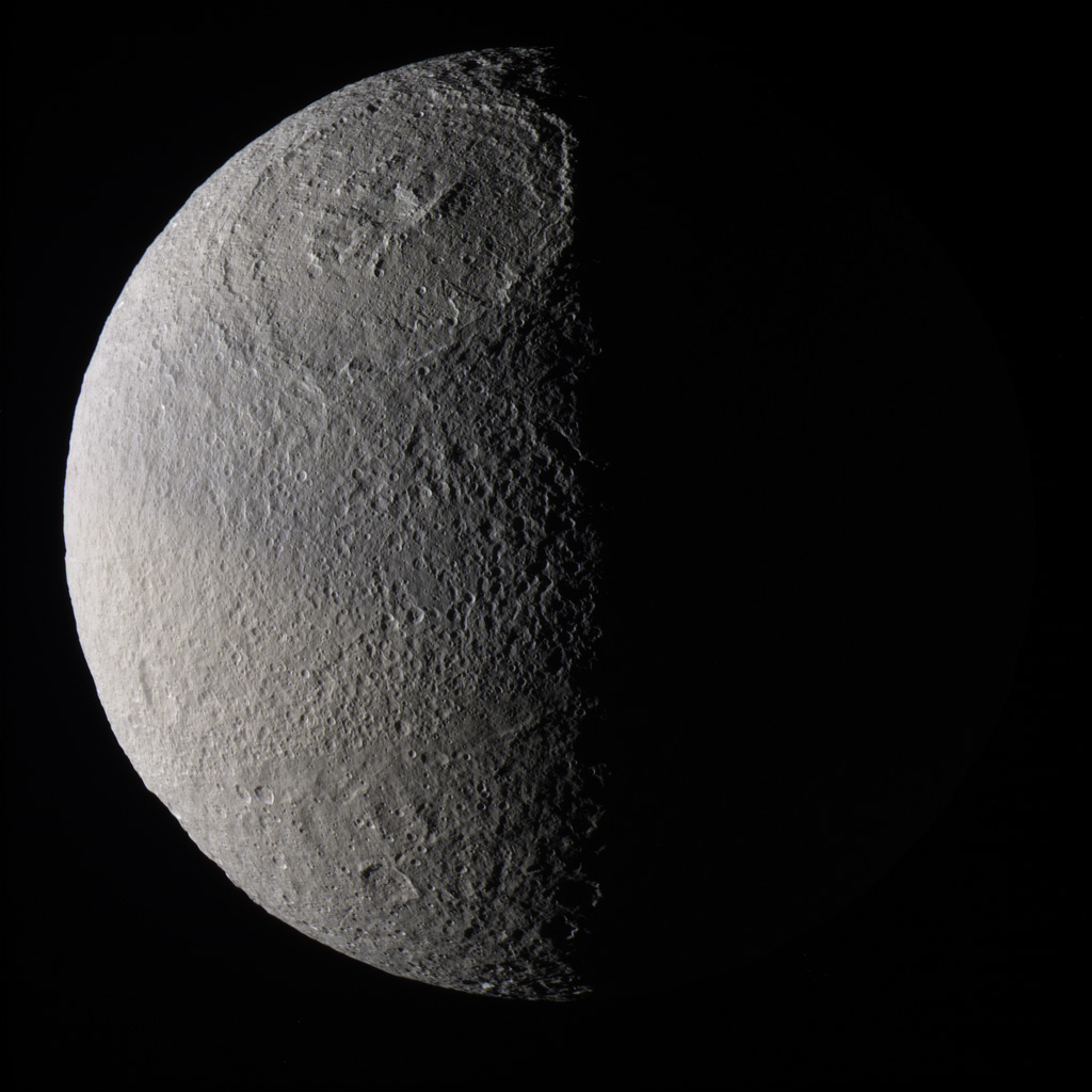 Color image of Tethys taken by Cassini's narrow-angle camera on December 24, 2005. IR, green and UV frames were processed to more closely match true color. Note the enormous (450 km diameter) impact structure named Odysseus. Also discernible is a dark-grayish band running across the equator with slightly redder material to the south and north. Taken at a distance of about 200 000 km and phase angle of 85 degrees. Credit: NASA / JPL / SSI / Gordan Ugarkovic